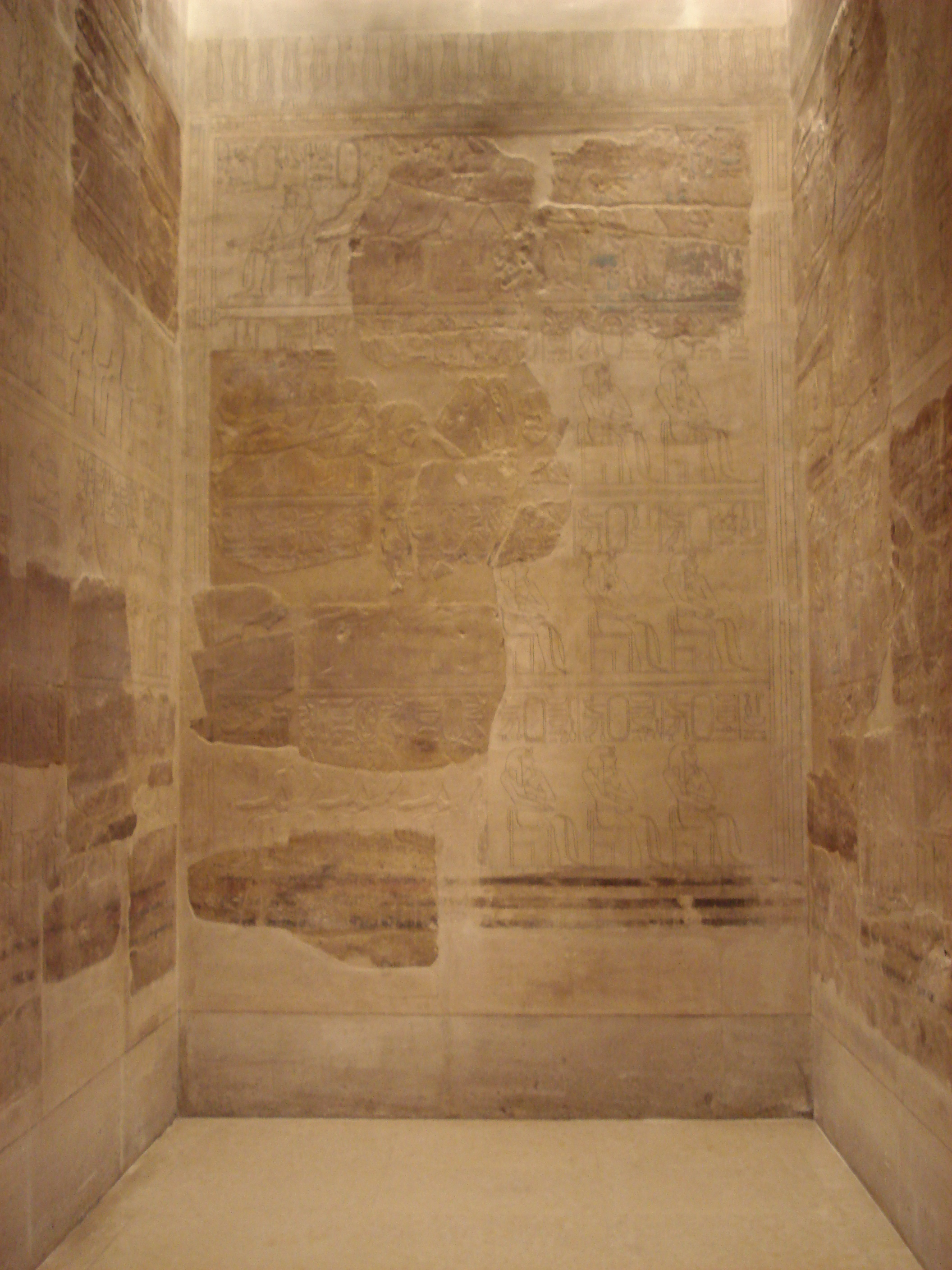 Louvre Museum